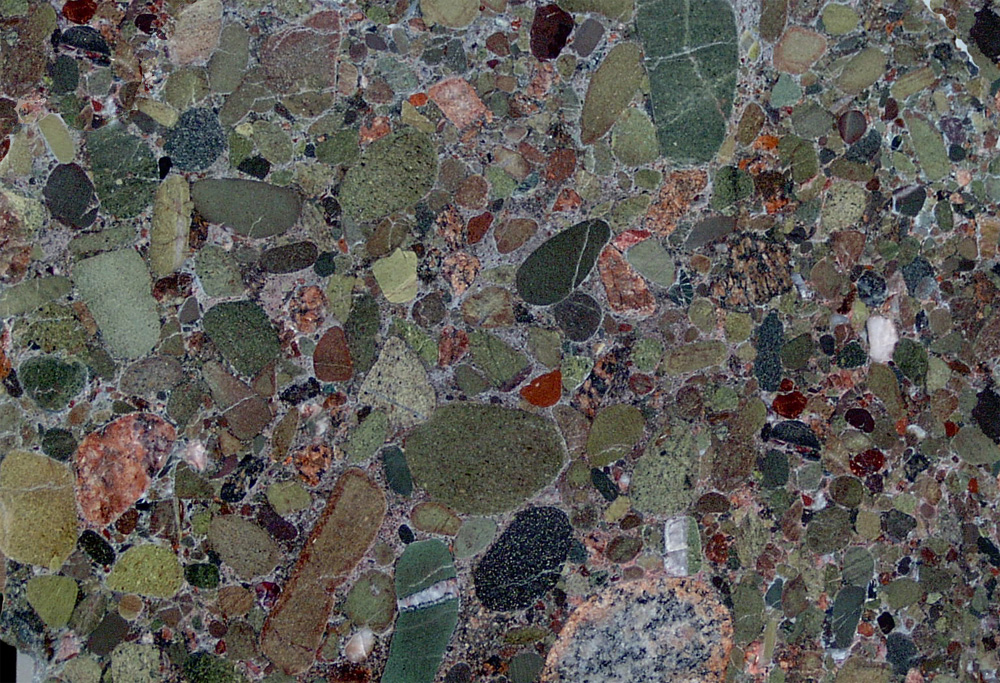 Conglomerate from Smøla, in Norway